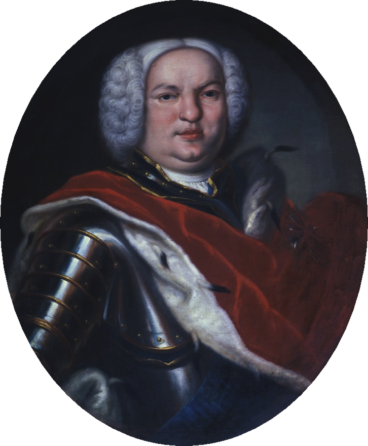 Friedrich Anton von Schwarzburg-Rudolstadt (1692-1744)